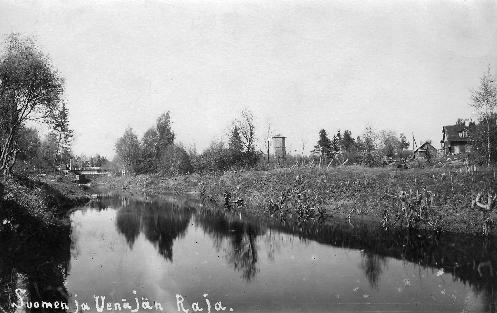 Sestra River and the Finnish–Soviet border in 1920s. Finland on the left, the Soviet Union on the right